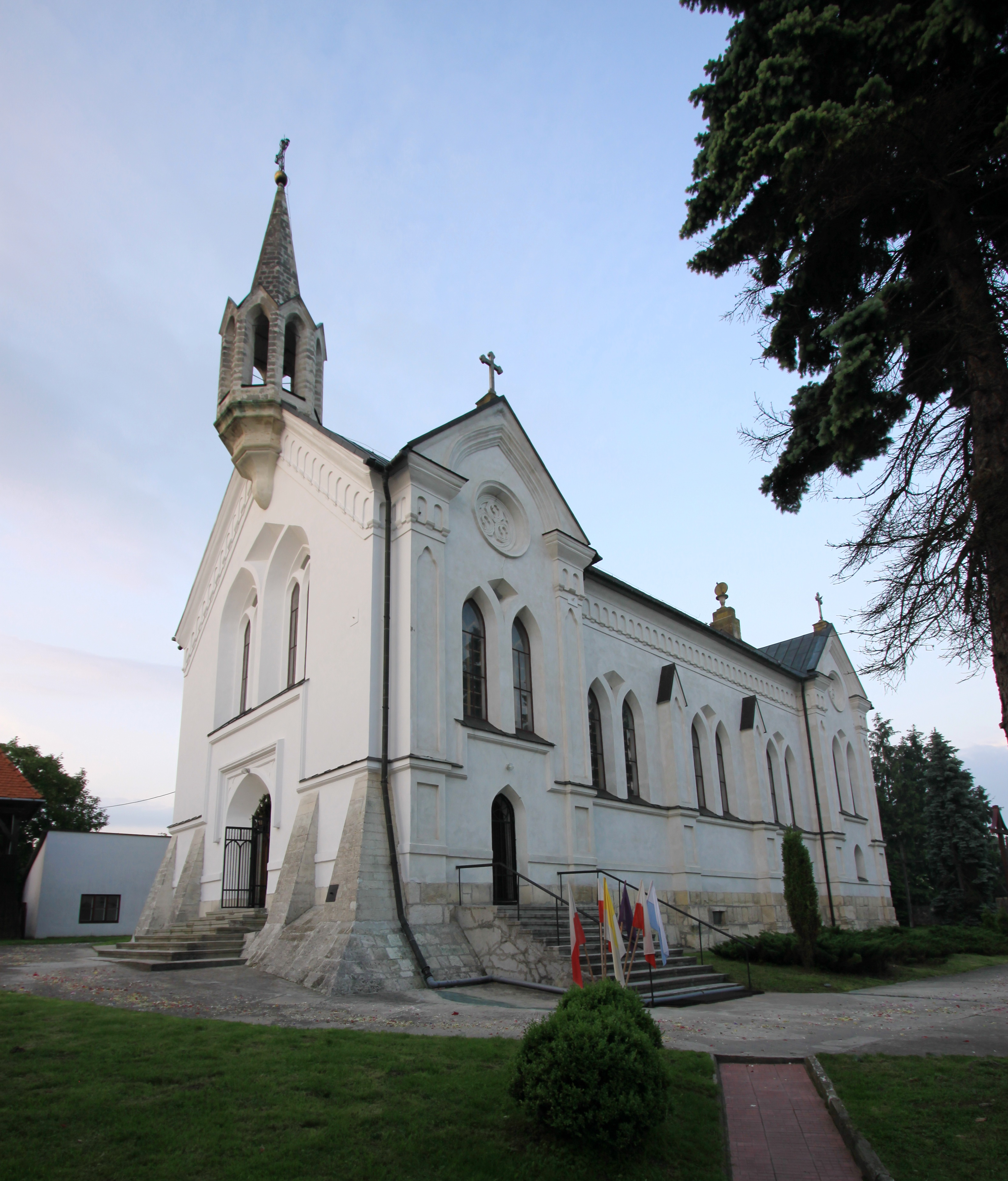 Słaboszów - Neo-Gothic Church of Saint Nicholas, built between 1854-1876, designed by Henryk Marconi, founded by Joseph Bzowski.